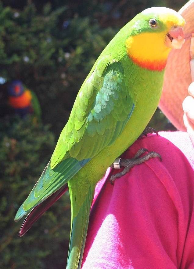 Superb Parrot (Polytelis swainsonii}, Walk-in Aviary, Gungahlin, Australian Capital Territory